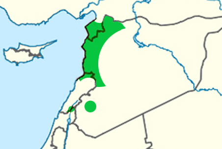 Map showing the current distribution of Alawites in the Levant